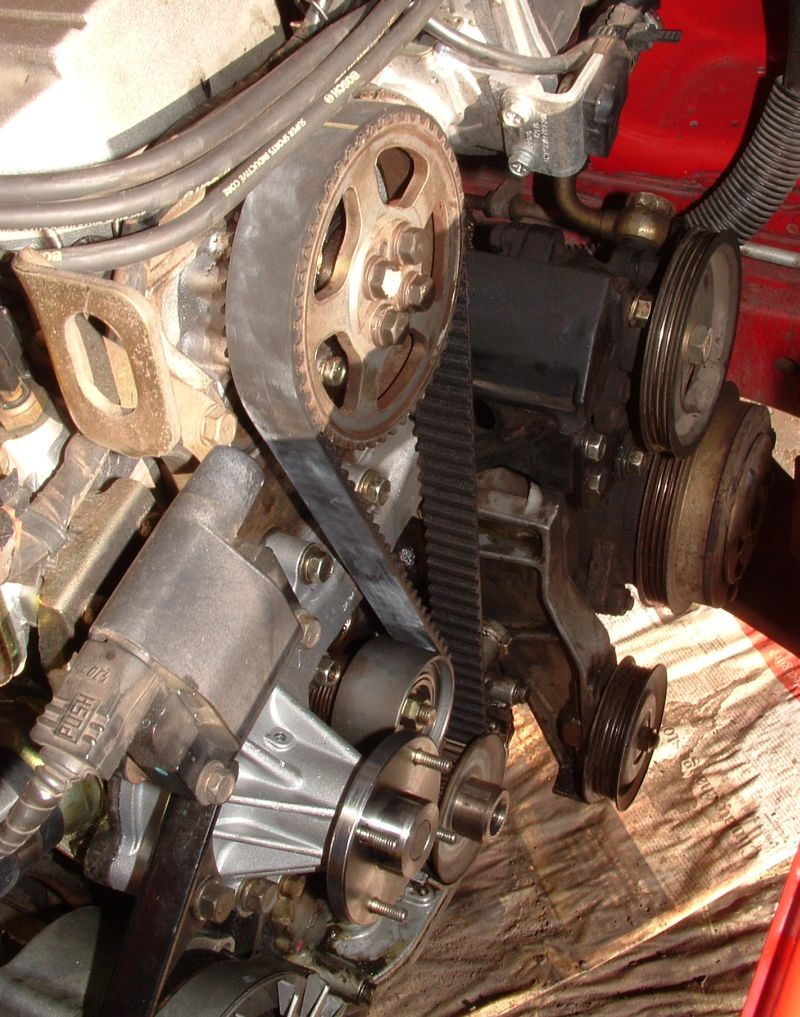 Timing Belt with covers off, Nissan RB30E Engine